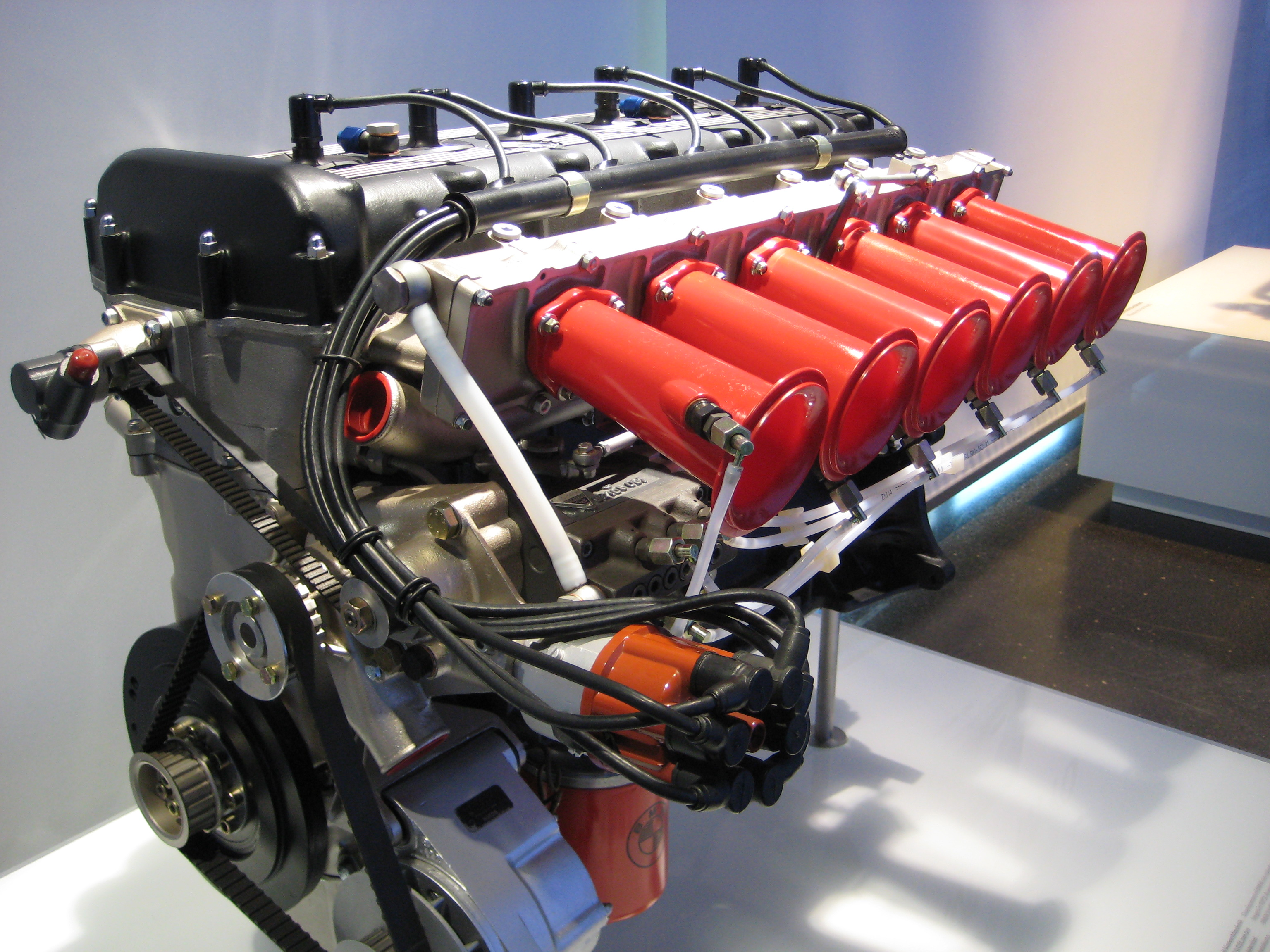 Race Engine BMW Type M49 from BMW E9 CSL with Kugelfischer gasoline Injection